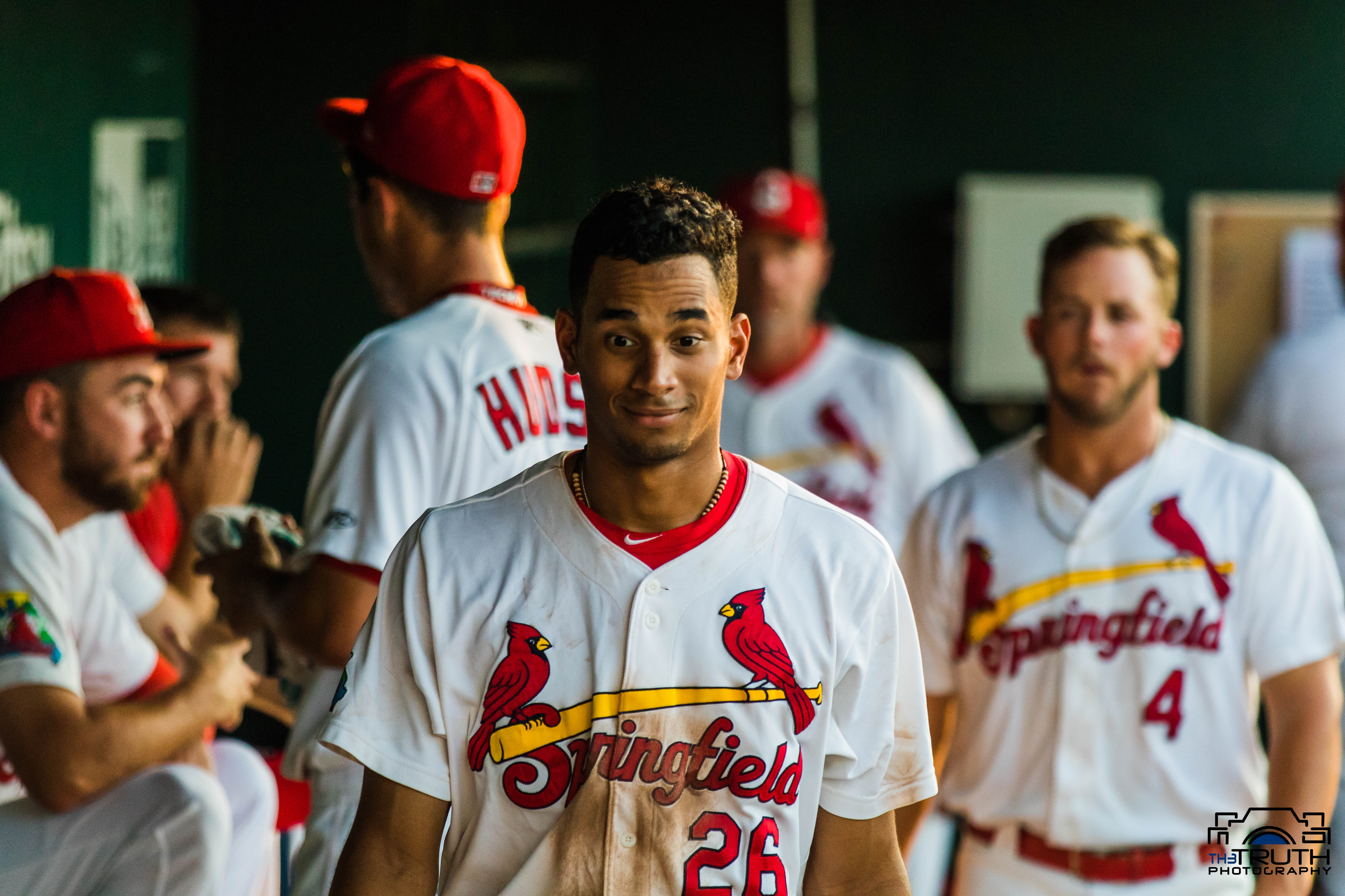 Oscar Mercado with the Springfield Cardinals in 2017